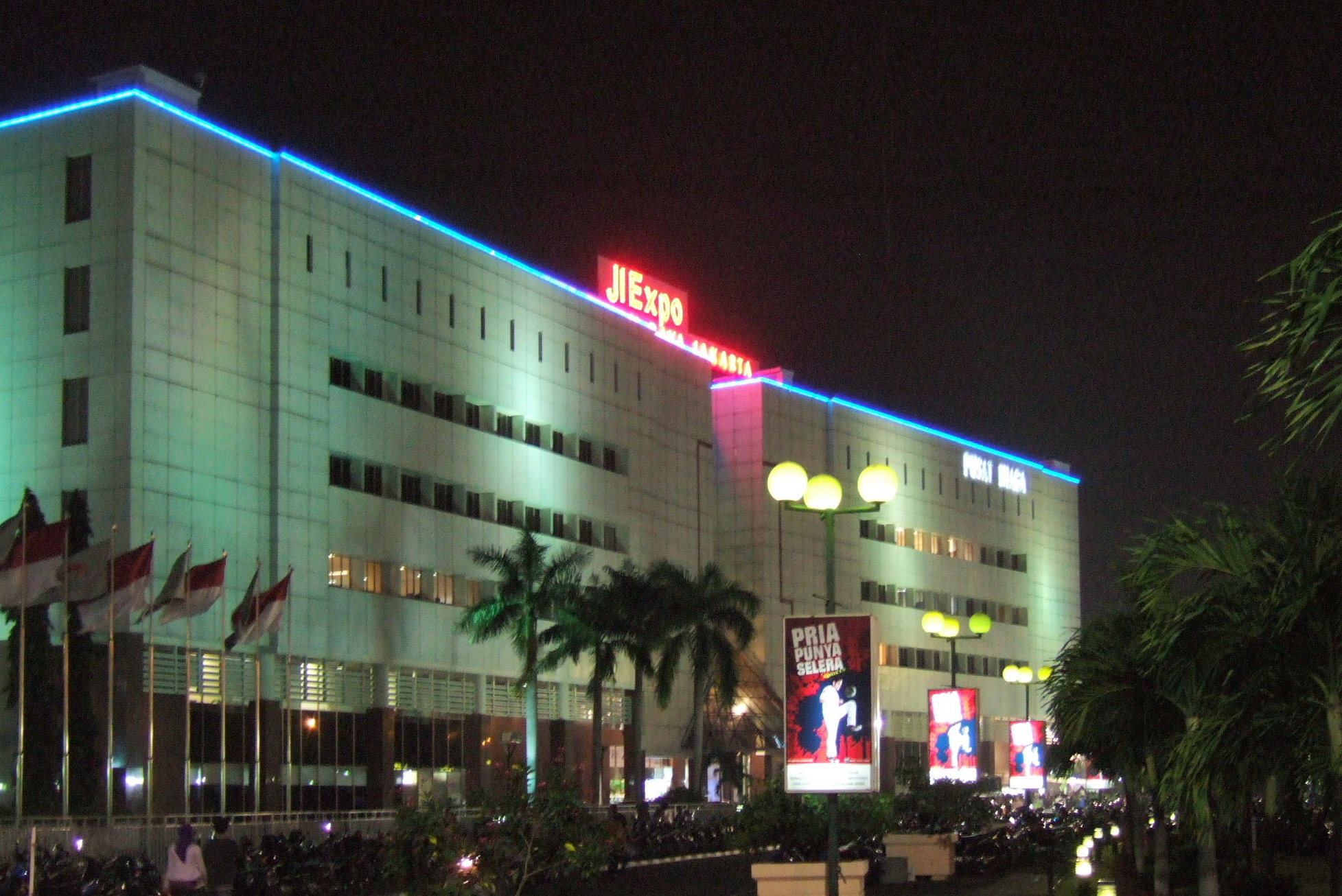 Jakarta Fair arena 2007